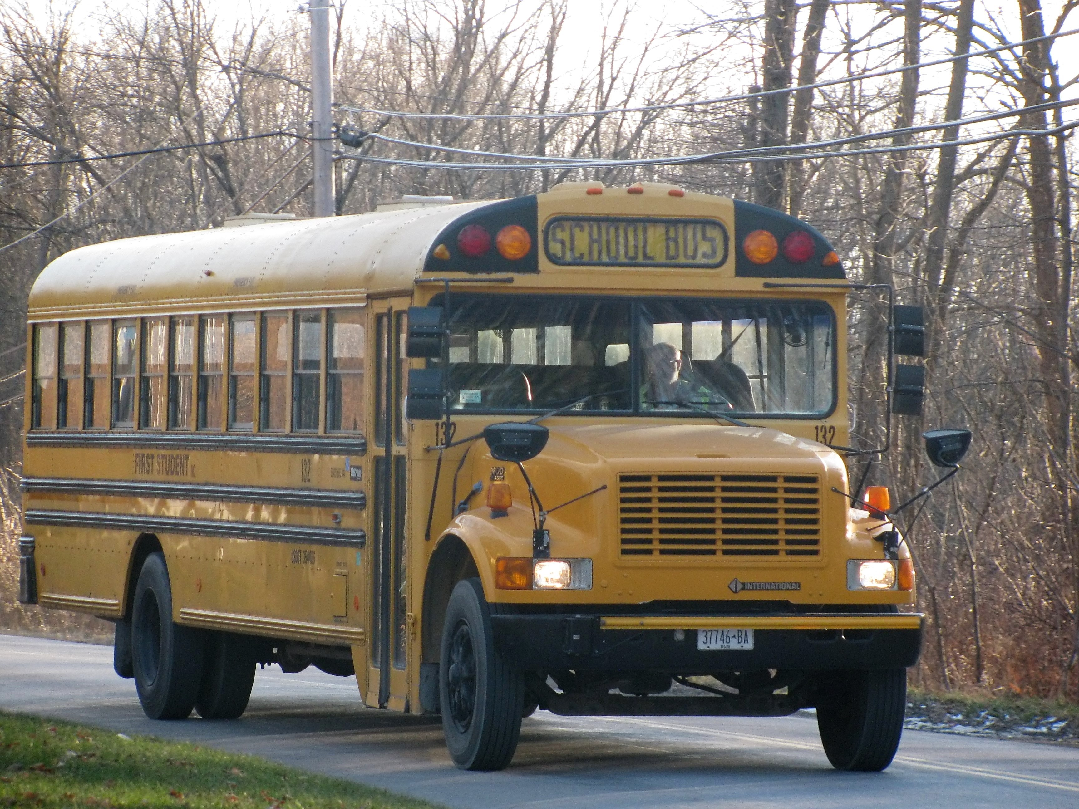 1997 Crown by Carpenter 3800 School Bus